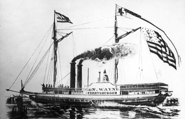 The Great Lakes Historical Society, the Cleveland Underwater Explorers (CLUE), the Institute of Nautical Archaeology, and Texas A&M studied the remains of the Anthony Wayne, a mid-19th century side-wheel passenger and cargo steamer built in 1837 which sunk in 1850. Its underwater about six miles north of Vermilion, Ohio. The wreck was found in 2006 by Tom Kowalczk, a member of CLUE. It is thought to be the oldest Lake Erie steamboat shipwreck. Online source: here.